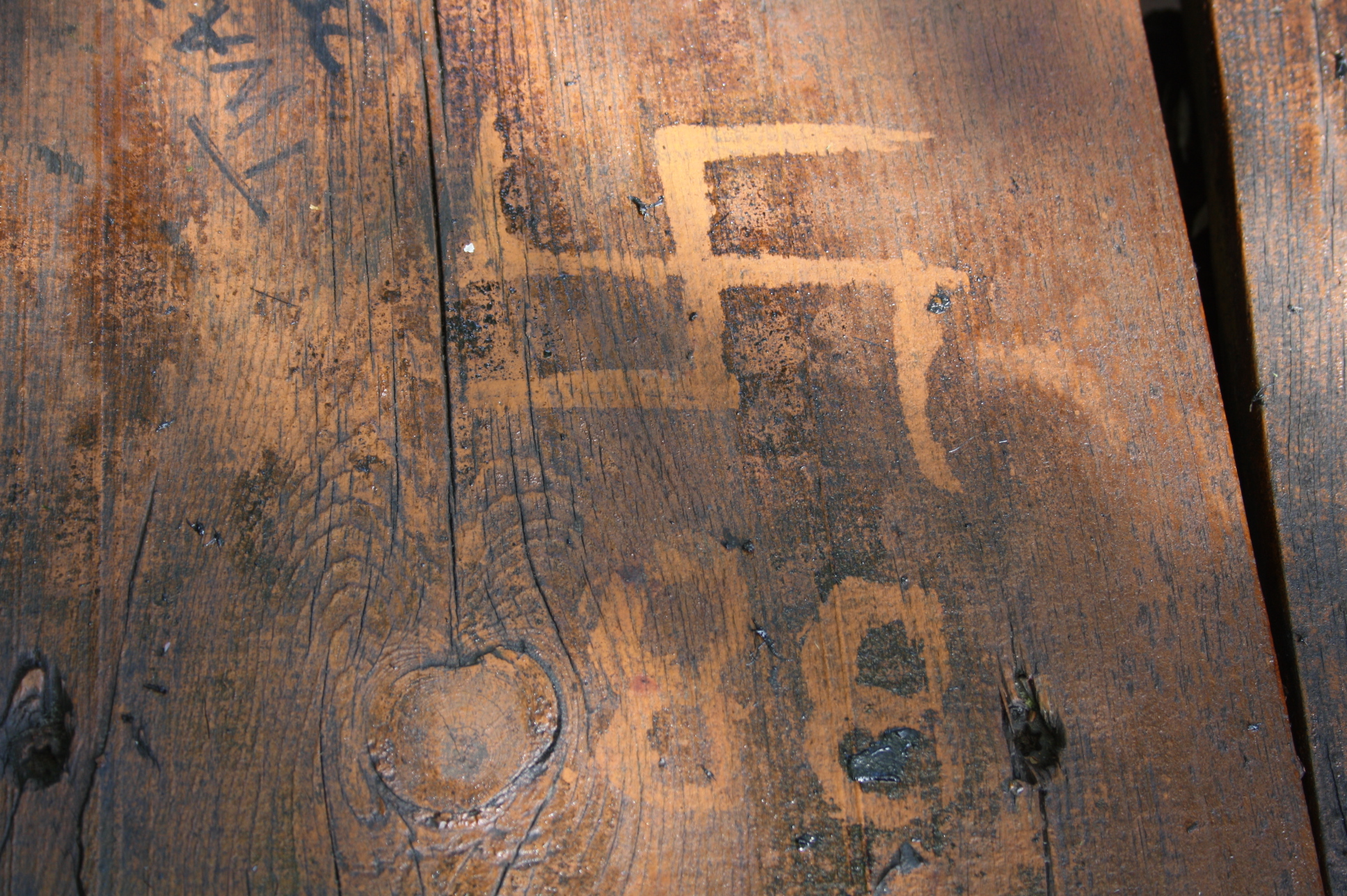 Drachenlord is a famous German Youtuber. His story is a learning play in troll culture.